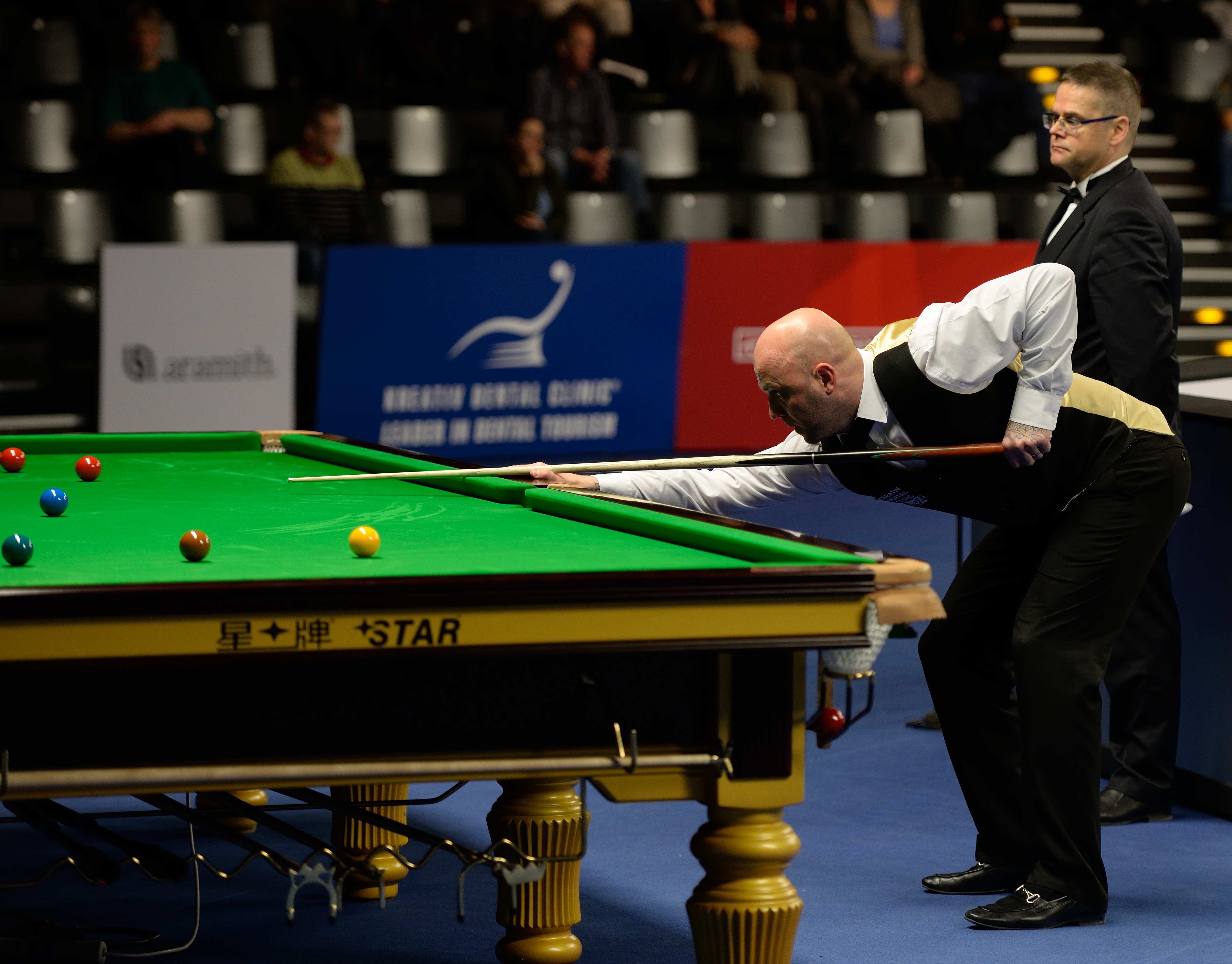 Picture taken in Berlin during the Snooker German Masters in 2015. Mark King, Ingo Schmidt.